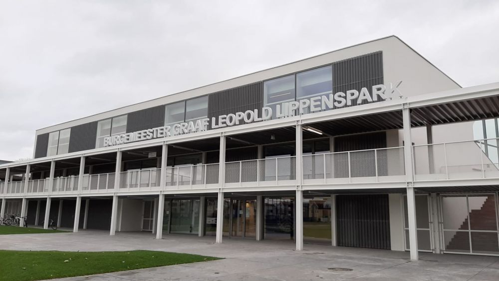 Knokke-Heist Stadium